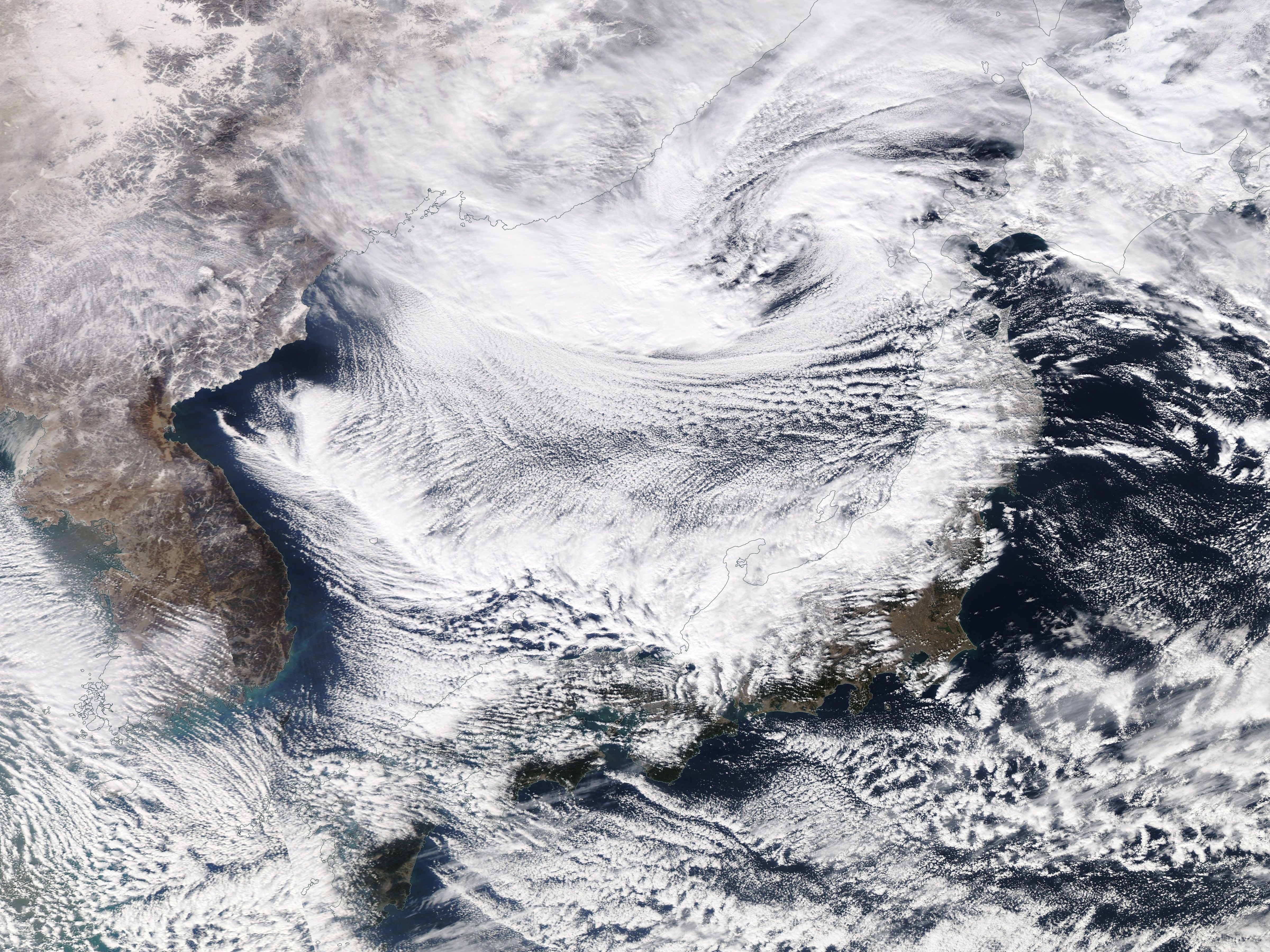 Satellite Image around the Sea of Japan in 2018-02-05(UTC), heavy snowy day in Japan Hokuriku region. In a image, streaky convective clouds cover the sea, cyclone vortex is in northeast, and a band of dence convergence cloud of JPCZ(Japan sea Polar air mass Convergence Zone) extend from Changbai Mountains, Ulleungdo, :en]Oki Islands|Oki Islands to Hokuriku region.